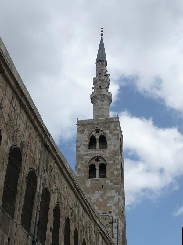 Outside of Umayyad Mosque